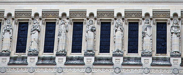 Robert Coin's carvings of "The Seven Virtues" at the Lisieux Basilica